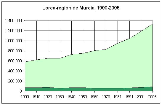 The city of Lorca (dark green) and the region of Murcia's (pale green) populations, Spain, (1900-2005). Own work, given to PD. Source: Instituto Nacional de Estadística.